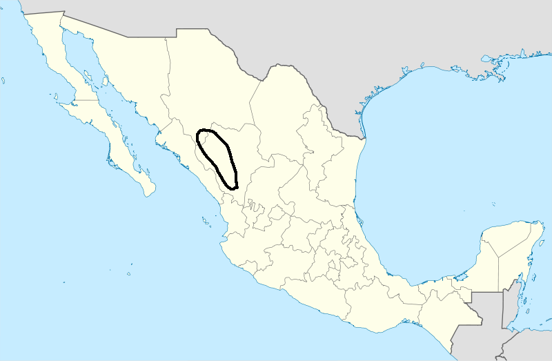 Map of Mexico, with states borders.